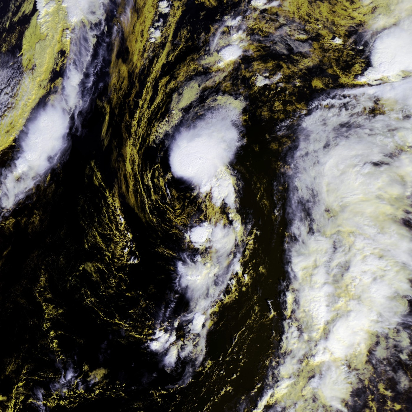 Tropical Storm Jerry on September 24 at approximately 1259 UTC. This image was produced from data from MetOp-2/A, provided by NOAA.